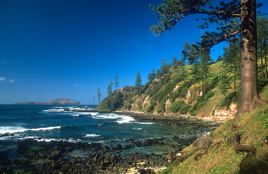 Bomboras, Norfolk Island.